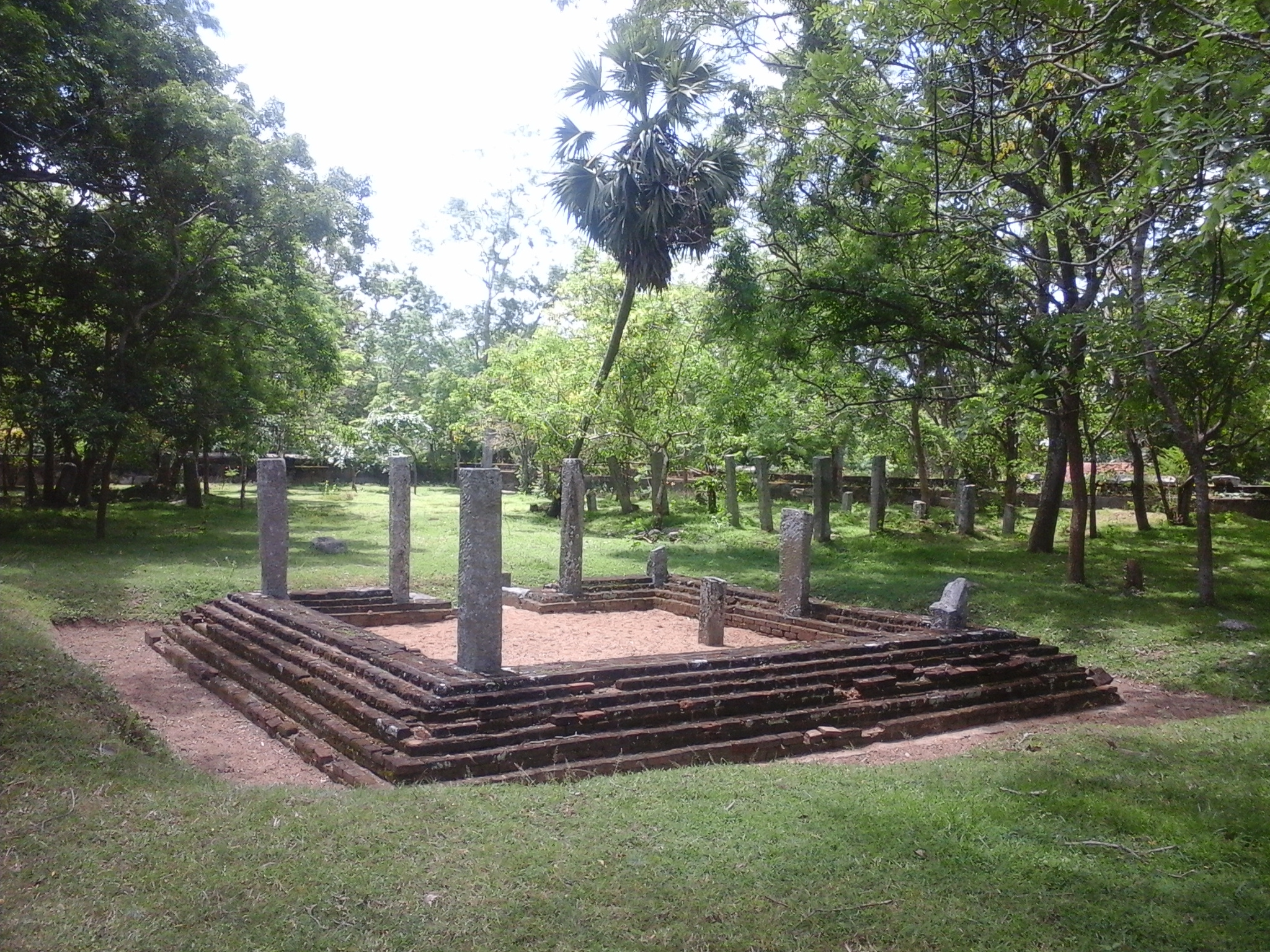 Kasagala Raja Maha Vihara Ruins